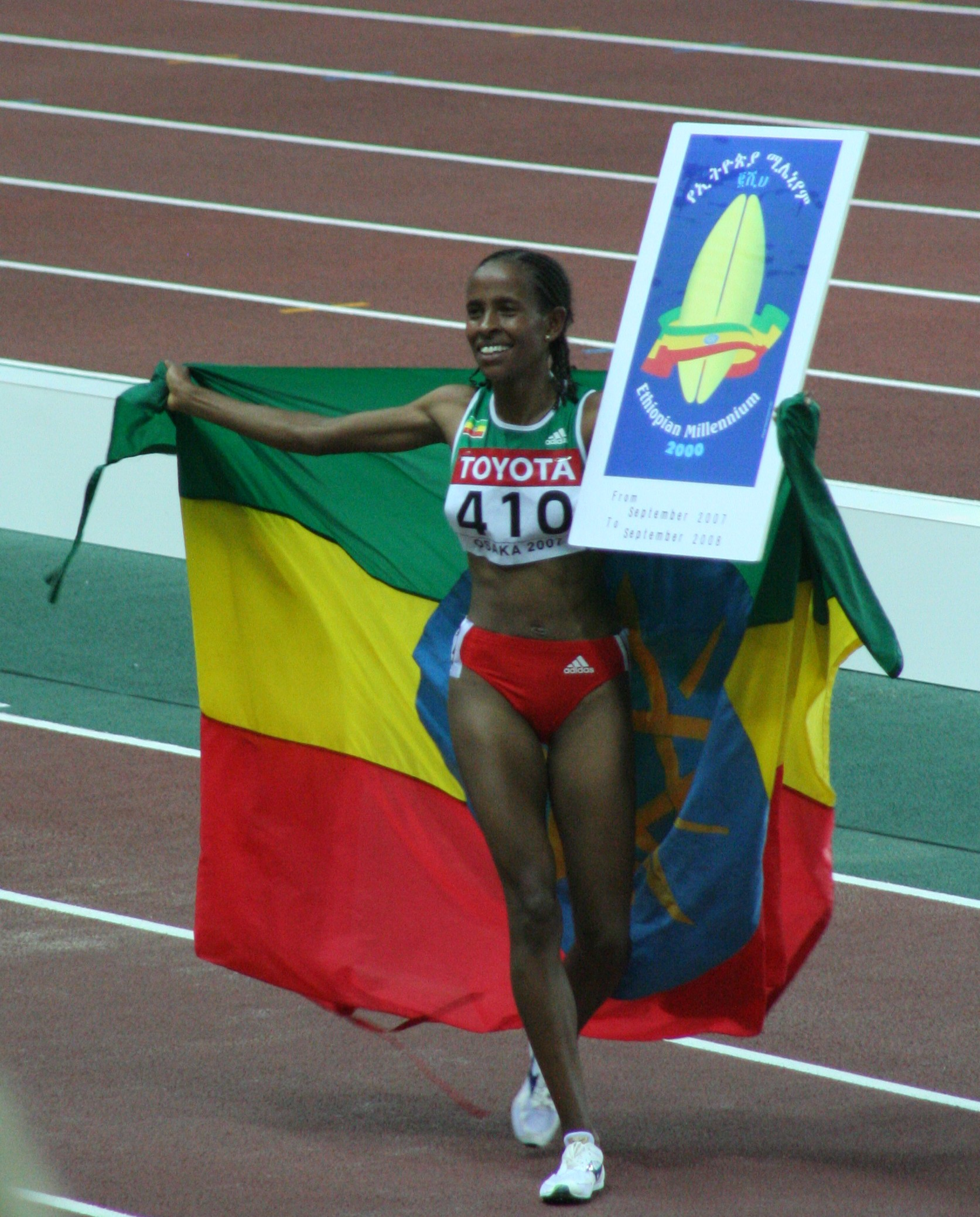 World Athletics Championships 2007 in Osaka - Meseret Defar from Ethiopia celebrating her victory in the women*s 5000 metres